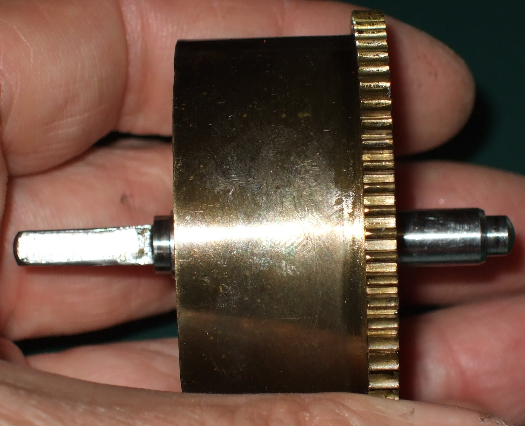 The mainspring barrel from a clock. The mainspring which drives the clock, a coiled ribbon of spring steel, is inside the barrel. The clock is wound up by fitting a key onto the squared-off axle of the barrel (left) and turning it, winding the spring inside closer around the axle, storing energy in the spring. The other end of the spring is attached to the barrel. The force of the wound up spring turns the barrel, and the ring of gear teeth around the outside turns the clock's gears, until the spring runs down and needs to be wound again. WARNING: Do not open the device you are seeing on the picture unless you have the special tools for performing this work safely and unless you have not been especially trained to perform this work. Even a broken spring is powerfull enough to cause serious destruction and hurt you or other persons very seriously! Do not disassemble clockworks by yourself, unless you do not know how take the necessary precautions. Disassembly of a clockwork without such precautions may cause serious injury of you or other persons. You may also detroy the clock when not being especially trained. These pictures are not presented here to inspire you for disassembly, but to give you the insights without having to disassemble a clockwork by yourself!